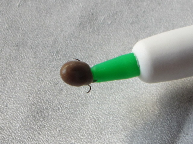 Instrument with lasso to remove ticks